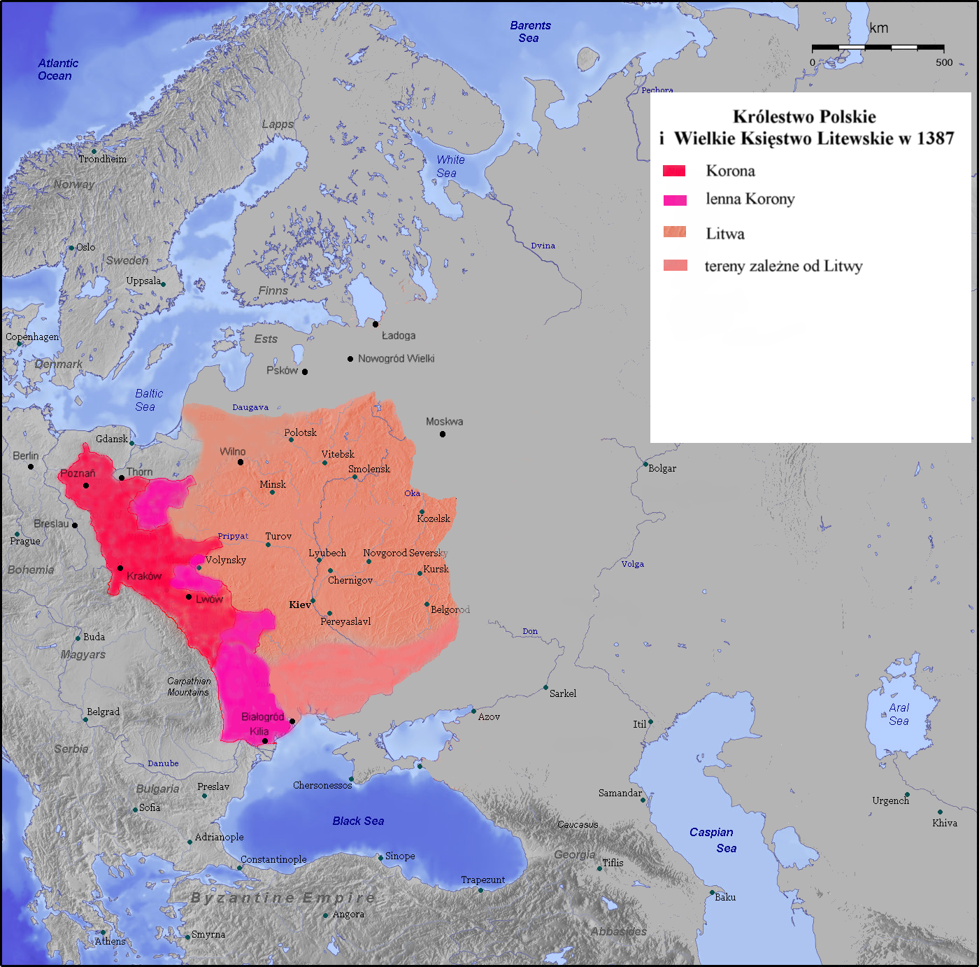 Poland and Lithuania in 1387 author --Mathiasrex (talk • contribs)